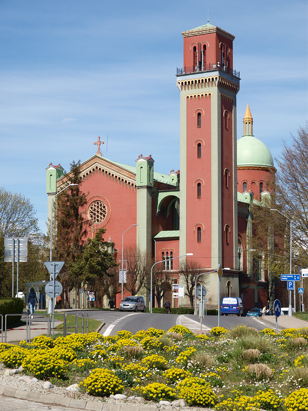 Kežmarok - Nový evanjelický kostol